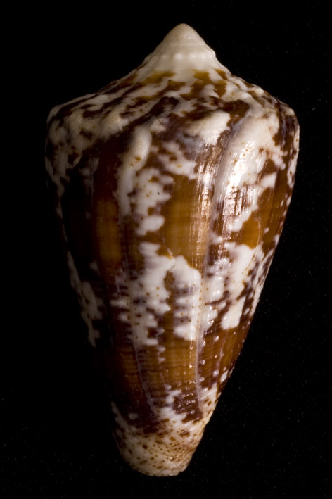 The upper side of the seashell Conus regius Gmelin, 1791[1]. Like some Conus species, Conus regius may cause accidents in humans due to the shooting of its poison dart. The first report on a clinical case involving this species was in Brazil in the year of 2009; consisted in a puncture caused in the right hand of a diver who presented paresthesia and movement difficulty in the whole limb. The manifestations disappeared after around twelve hours, without sequelae. Junior, Vidal Haddad; Coltro, Marcus; Simone, Luiz Ricardo L. "Report of a human accident caused by Conus regius (Gastropoda, Conidae)". Revista da Sociedade Brasileira de Medicina Tropical. vol.42 no.4 Uberaba July/Aug. 2009[2] This species occurs in South Florida, West Indies and Brazil, in moderately deep water. ABBOTT, R. Tucker; DANCE, S. Peter (1982). Compendium of Seashells. A color Guide to More than 4.200 of the World's Marine Shells. New York: E. P. Dutton. p. 267. 412 pp. ISBN 0-525-93269-0